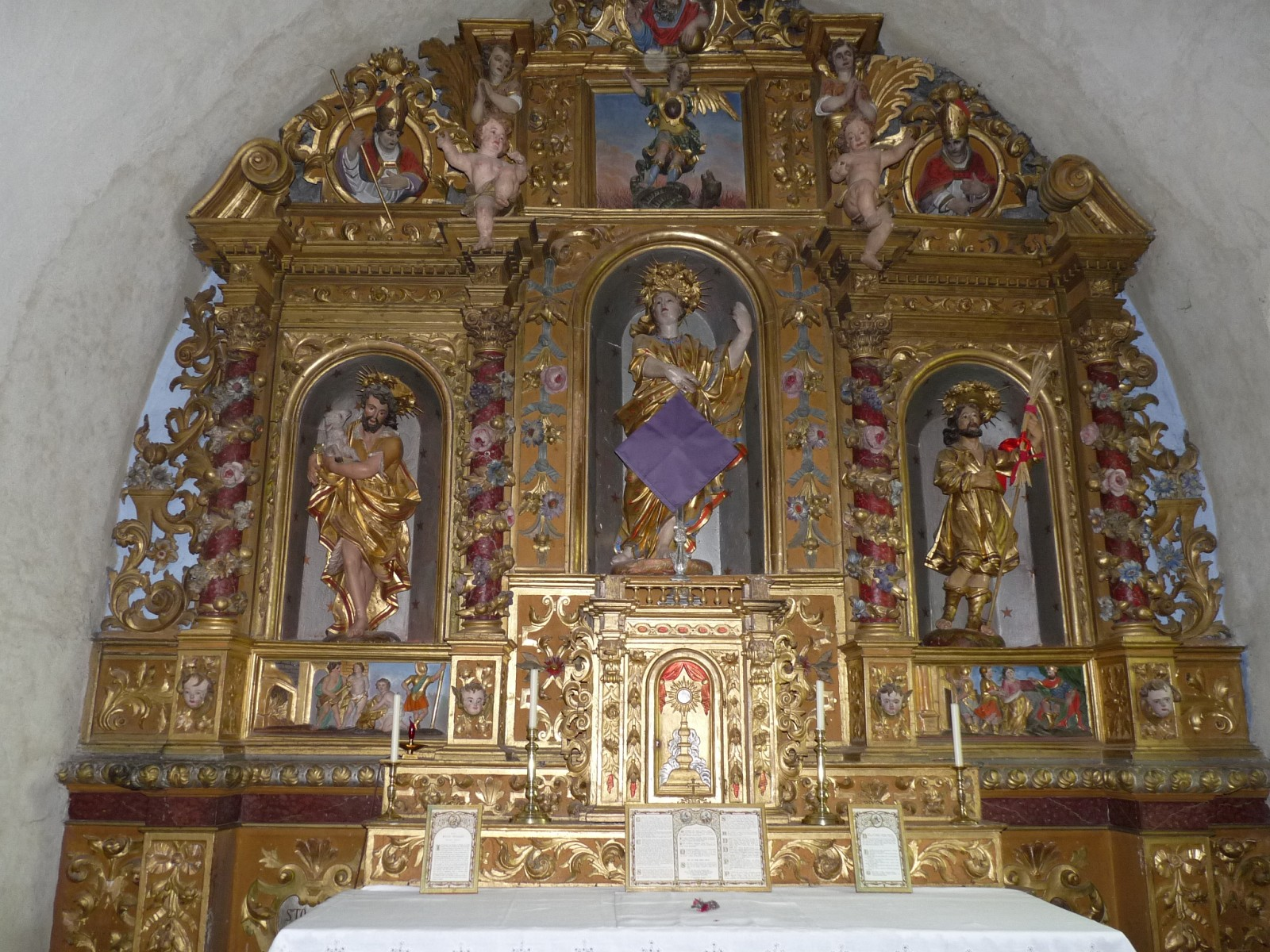 Church of Bolquère, Pyrénées-Orientales, France